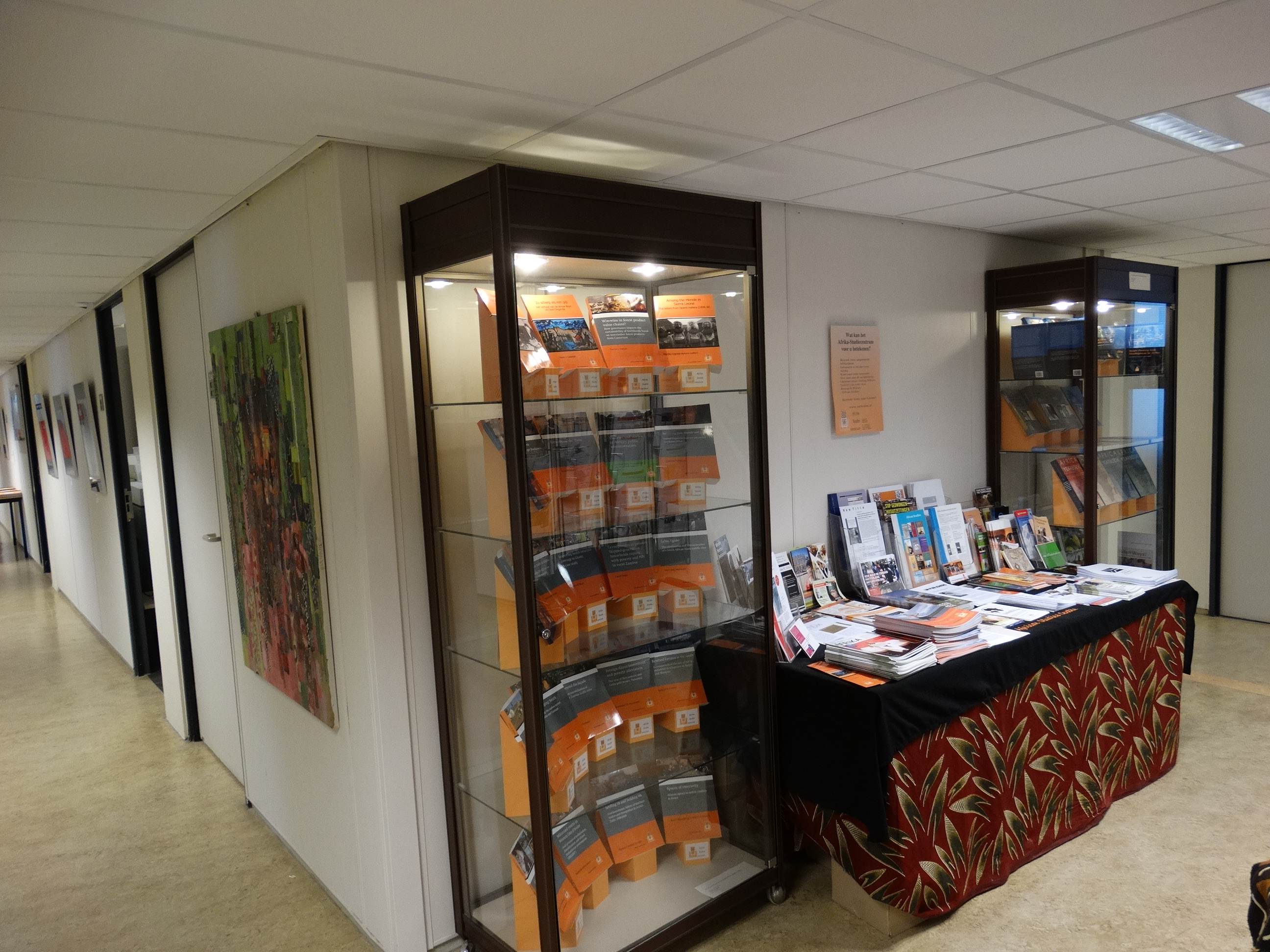 African Studies Centre, Leiden (The Netherlands)